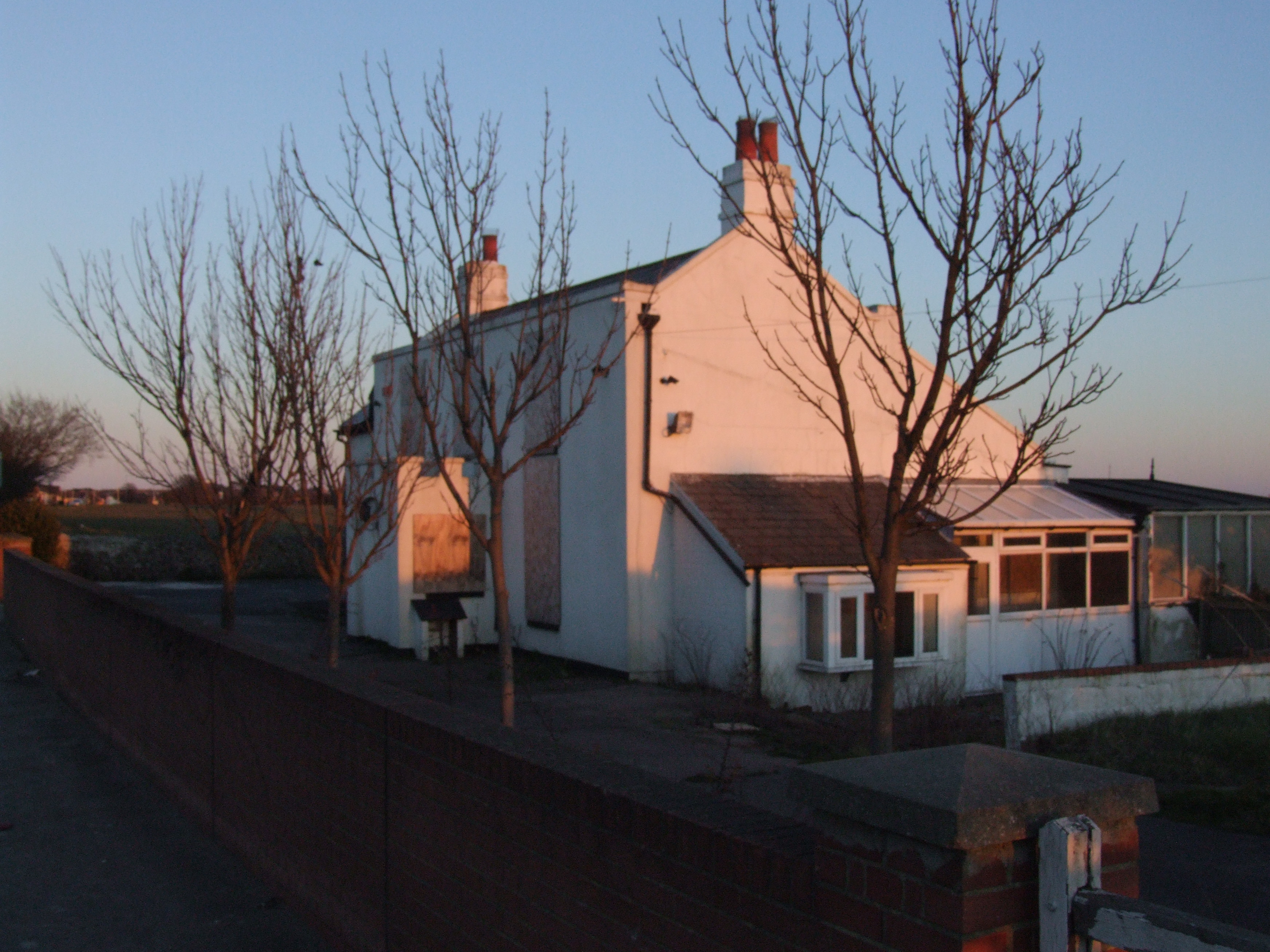 Empty house by the Lord of the Manor roundabout, near Ramsgate